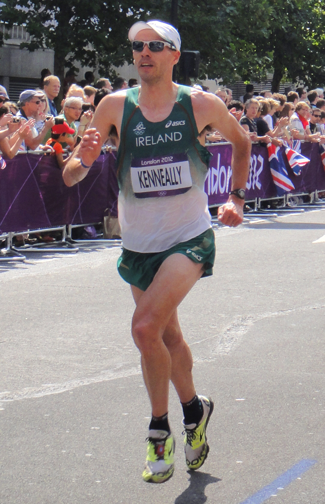 Mark Kenneally (Ireland), Raul Pacheco (Peru), Lee Merrien (Great Britain) and Zatara Mande Ilunga (Congo) - London 2012 Men's Marathon